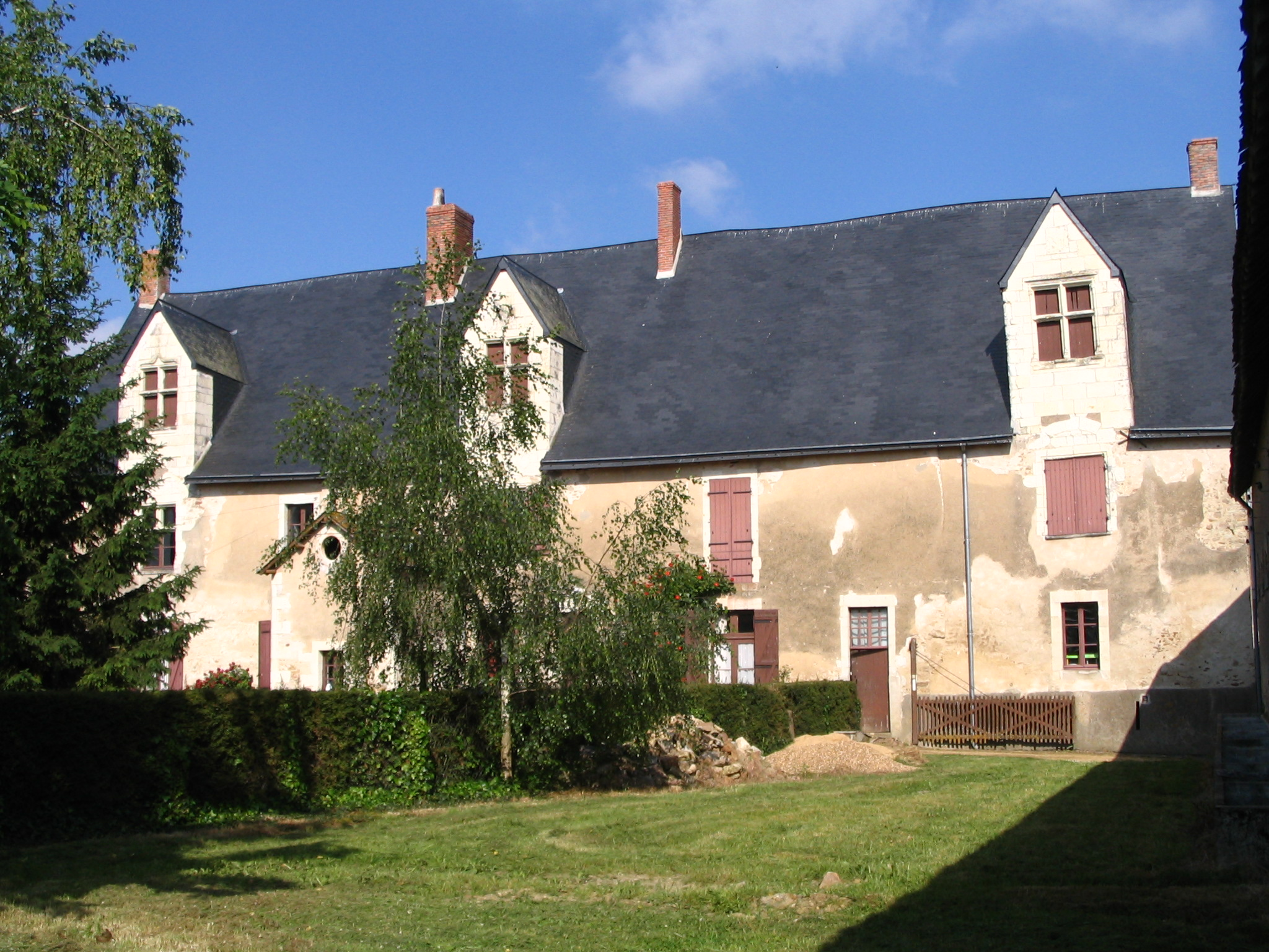 The abbey of Daumeray, Maine-et-Loire, France.